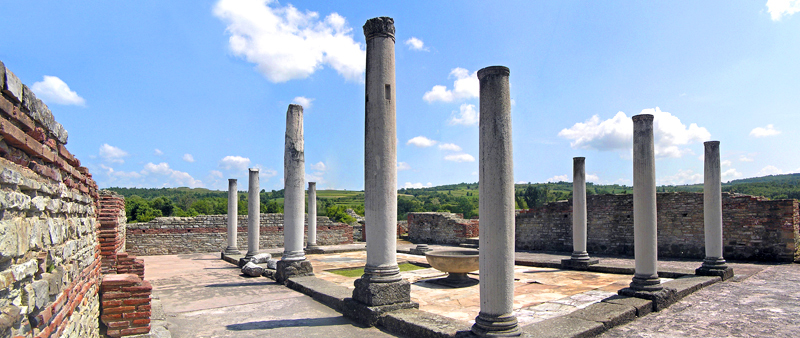 Gamzigrad-Romuliana, Palace of Galerius, UNESCO world heritage site